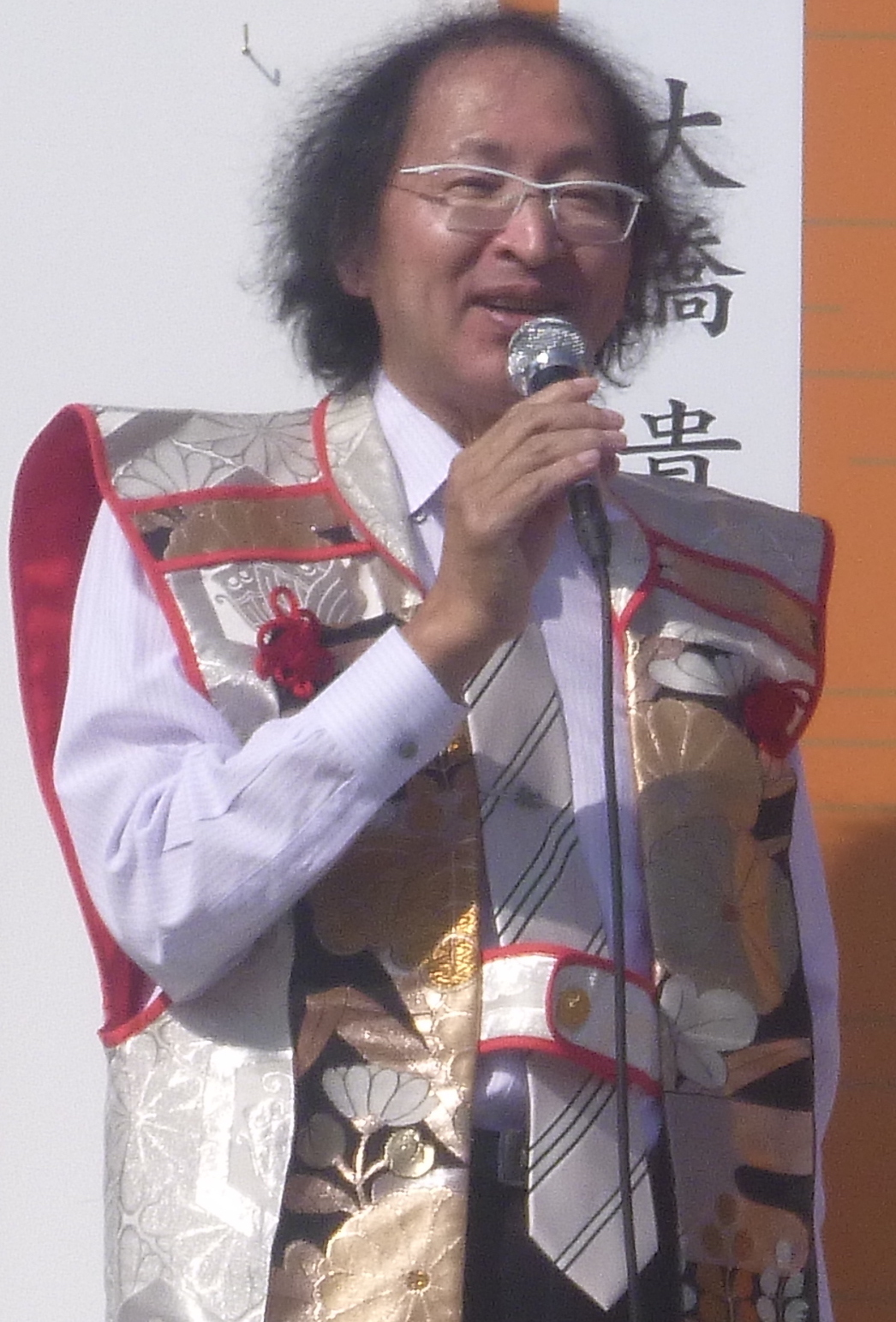 Japanese shogi player Bungo Fukusaki commenting about the exhibition match of human shogi in Himeji, Japan.